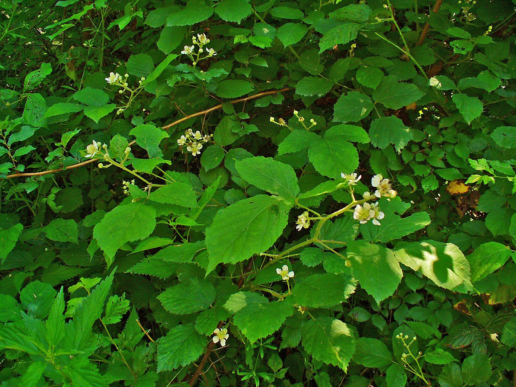 Rubus fruticosus agg., Rosaceae, Blackberry, habitus. Karlsruhe, Germany.